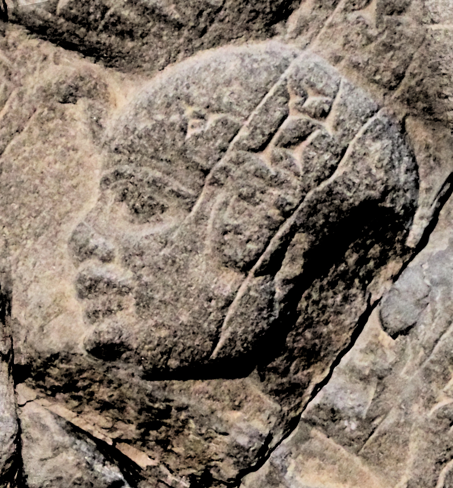 Ushankhuru (head portion)